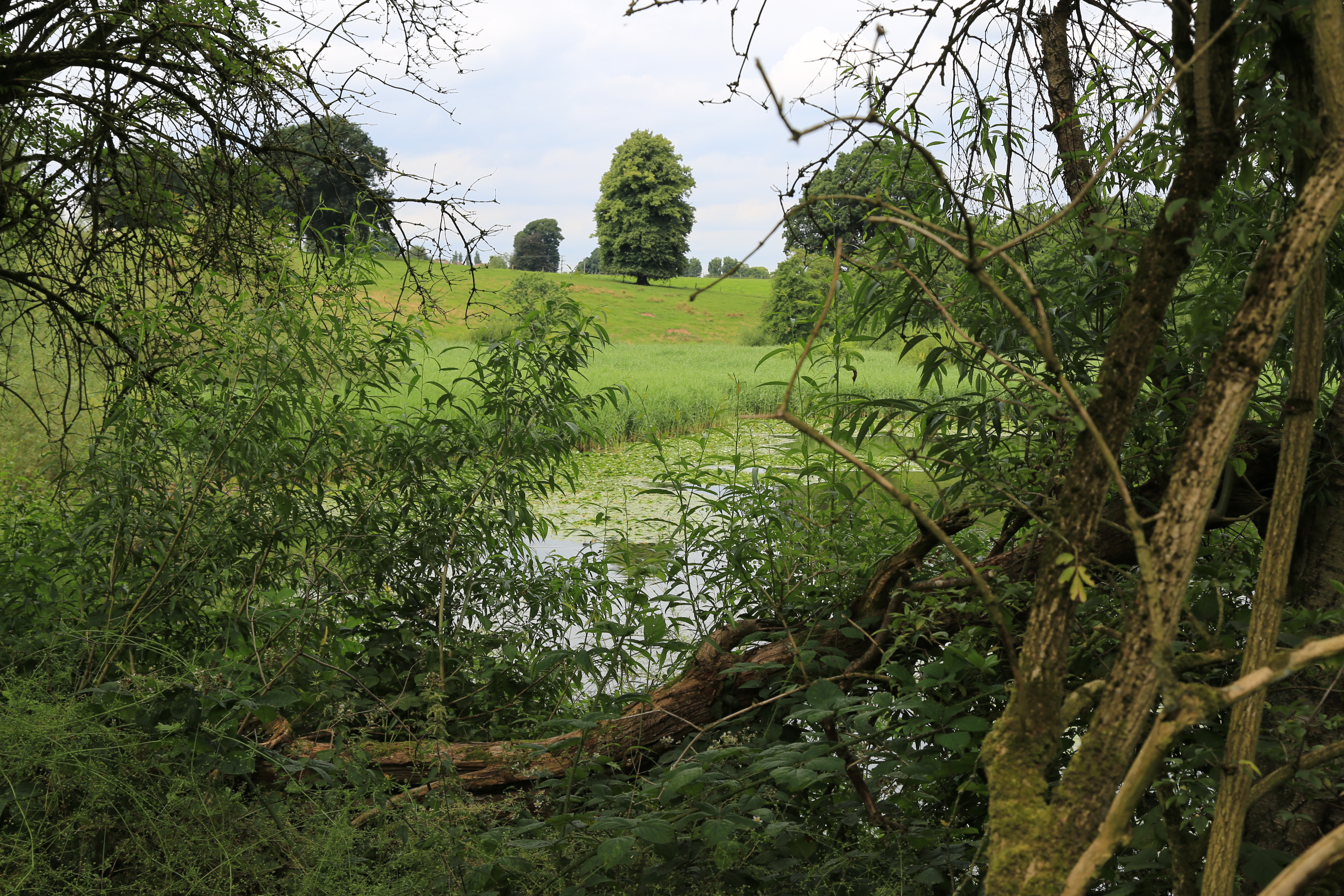 Reed beds Budworth Mere